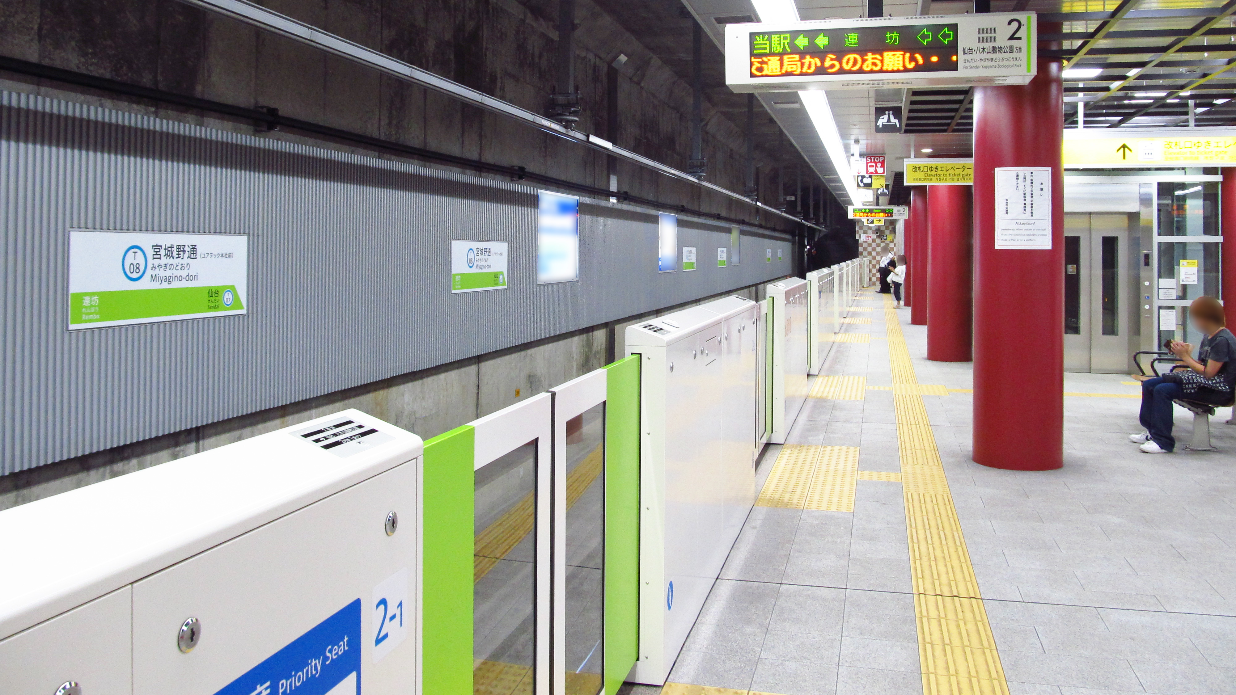 The platform at Miyagino-dori Station on Sendai Subway Tōzai Line in Miyagino-ku, Sendai, Japan